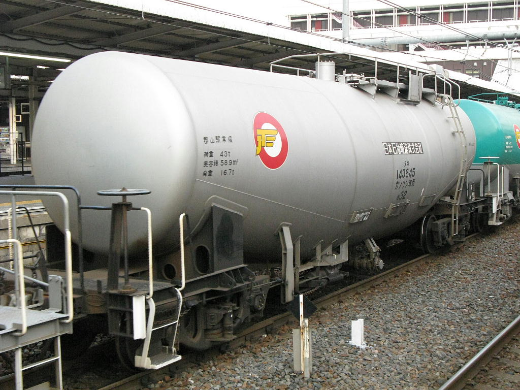 TaKi 43000 tank wagon 143645 in a train passing through Omiya Station in Saitama Prefecture, Japan